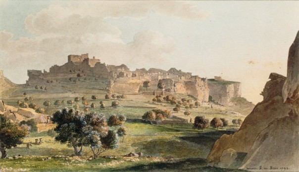 Les Baux in 1792